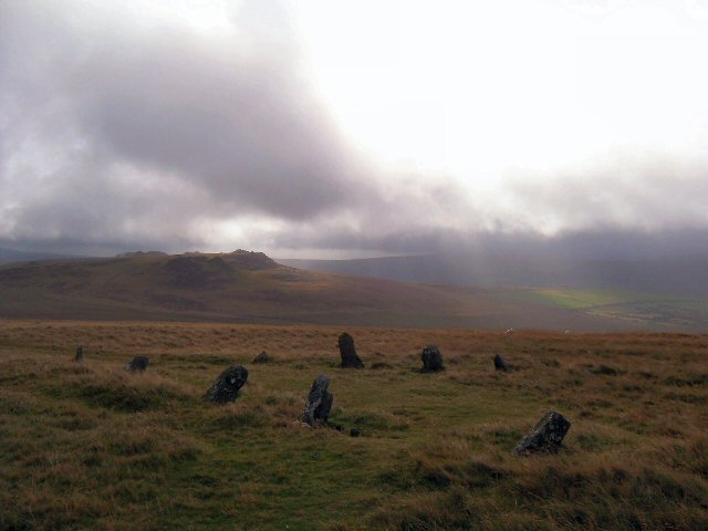 Beddarthur standing stone circle, Preseli Mountains The stone circle of Beddarthur lies on the north eastern slopes of Carn Siân in the Preseli Mountains, North Pembrokeshire. The stone circle is adjacent to the ancient trackway known as the 'Golden Road' which runs along the Preseli mountain ridge and passes Carn Menyn (the reputed source of the Stonehenge Bluestones) which can be seen in the distance.